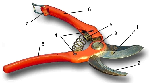 Pruning shears